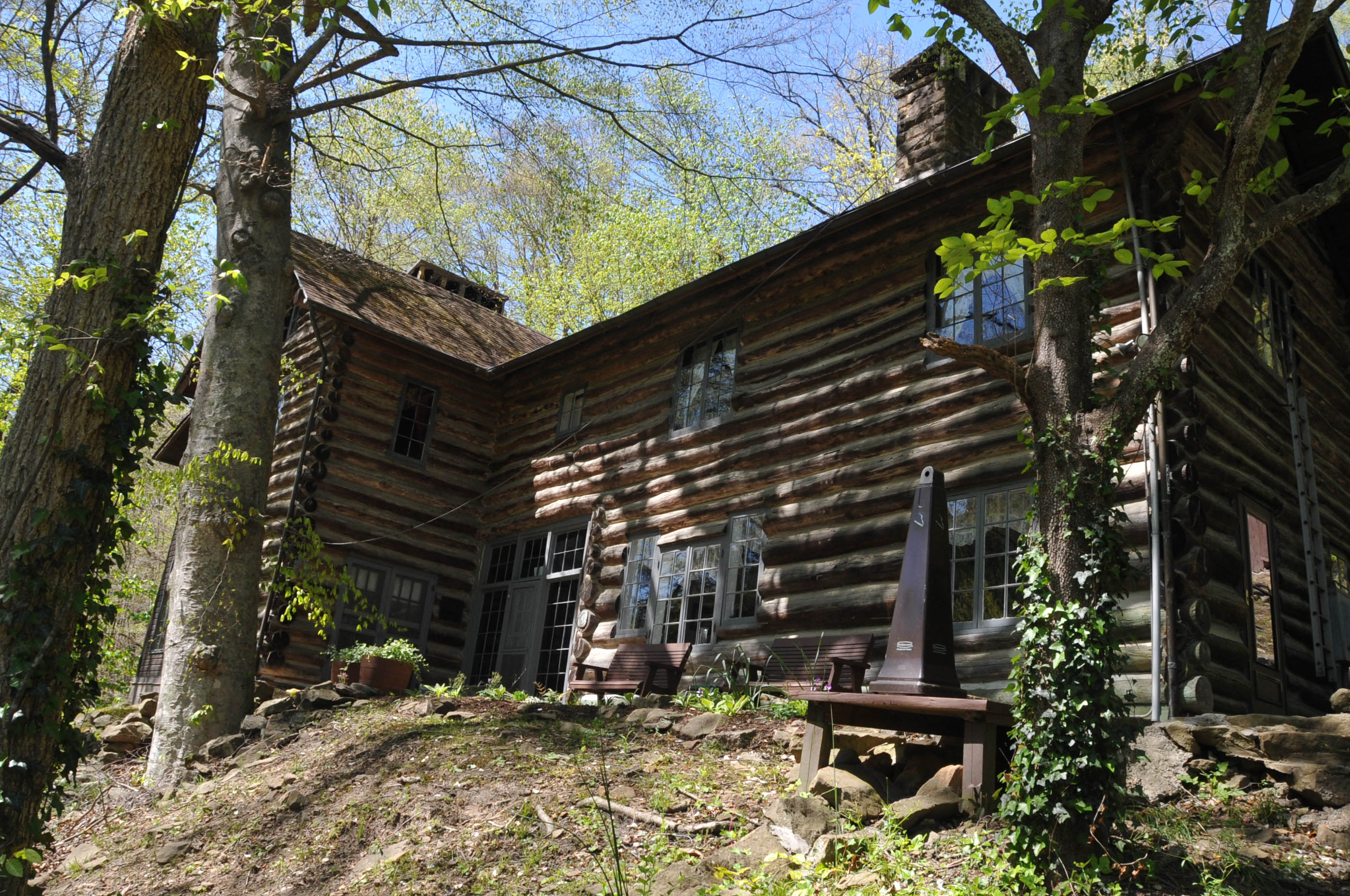 THE BIG HOUSE; IN 1925 MARY BRECKINRIDGE, A PROFESSIONAL MIDWIFE PROVIDED NURSING CARE TO MOUNTAIN PEOPLE; HER NURSES FORMED FRONTIER NURSING SERVICE AND AROUND IT DEVELOPED A NJURSING UNIVERSITY. MORE WOMEN DIED IN CHILDBIRTH IN RURAL AREAS THAN ANY OTHER CAUSES EXCEPT TUBERCULOSIS. THE BIG HOUSE WHERE SHE LIVED BECAME A BED AND BREAKFAST BUT APPEARS CLOSED NOW